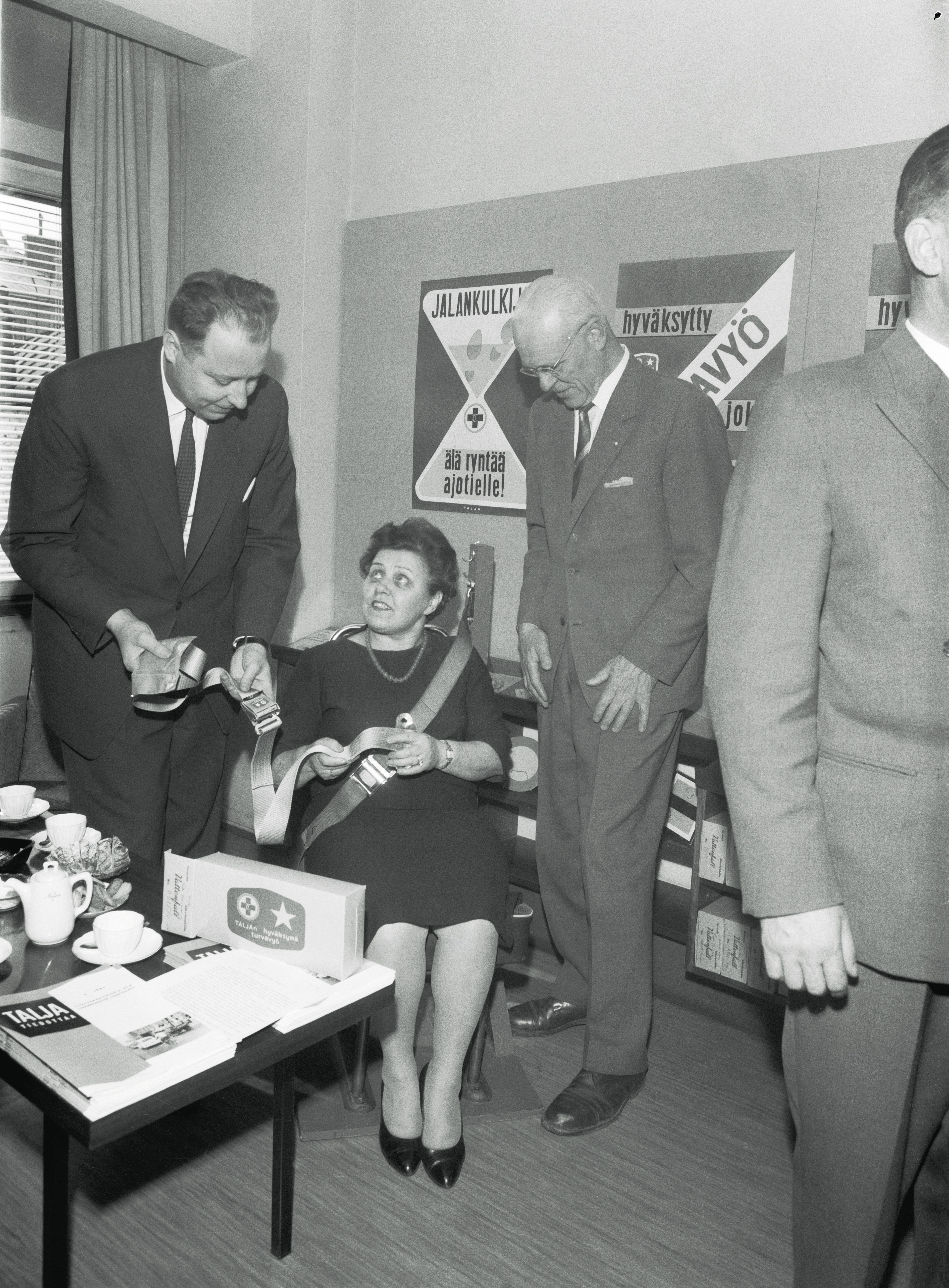 Photograph of the Finnish Member of Parliament Vappu Heinonen (sitting) who has received a seat belt from Talja organization as a part of its traffic safety campaign.